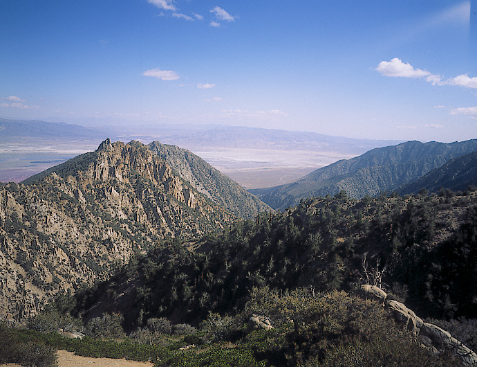 Owens Lake from the Horseshoe Meadows Road in the Eastern Sierra Nevada of California.